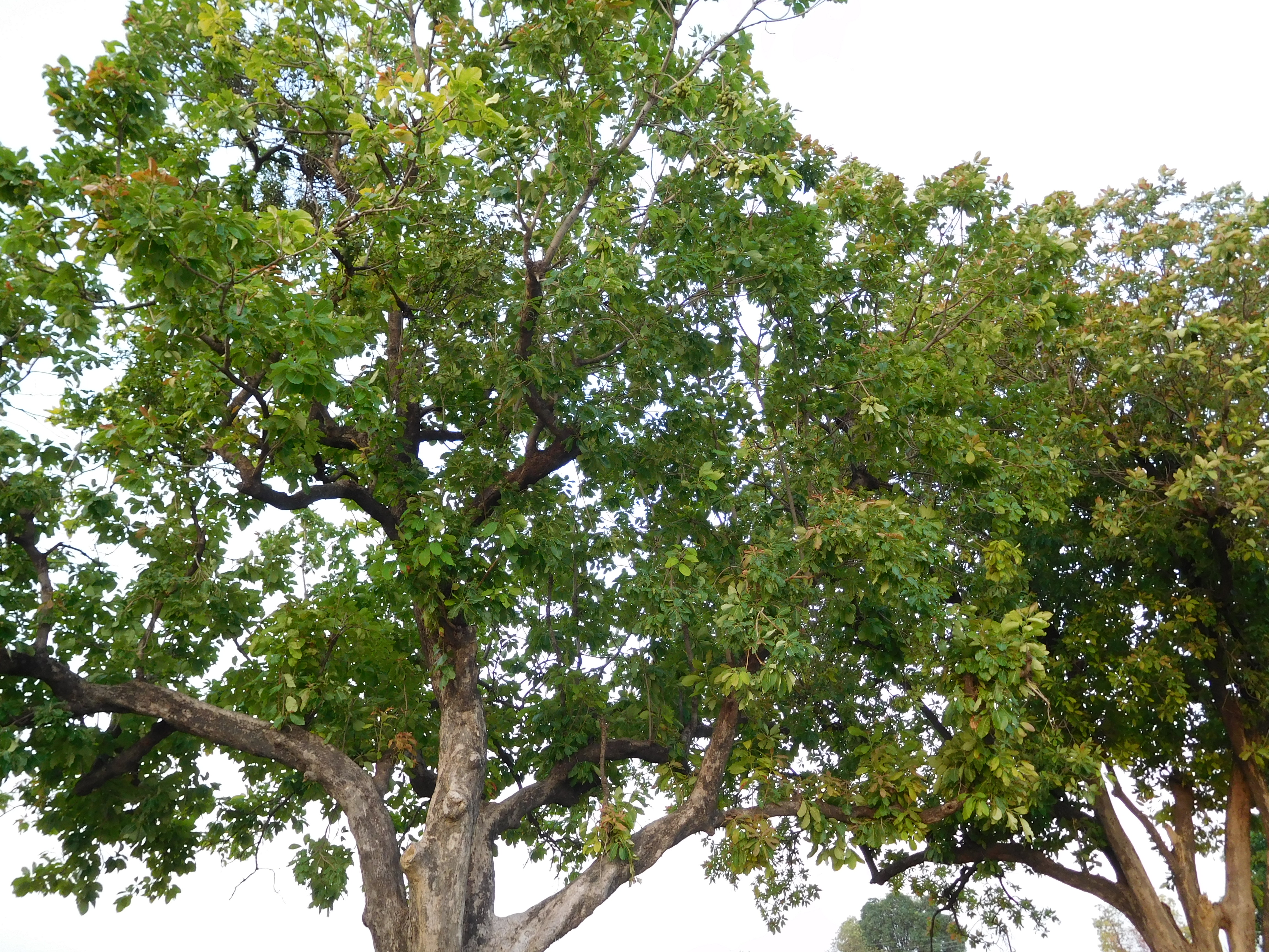 Bassia latifolia(Latin),Mahua Tree